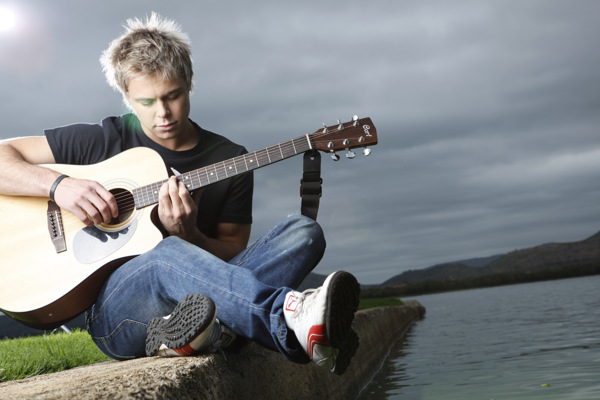 Shows how Bobby look's like